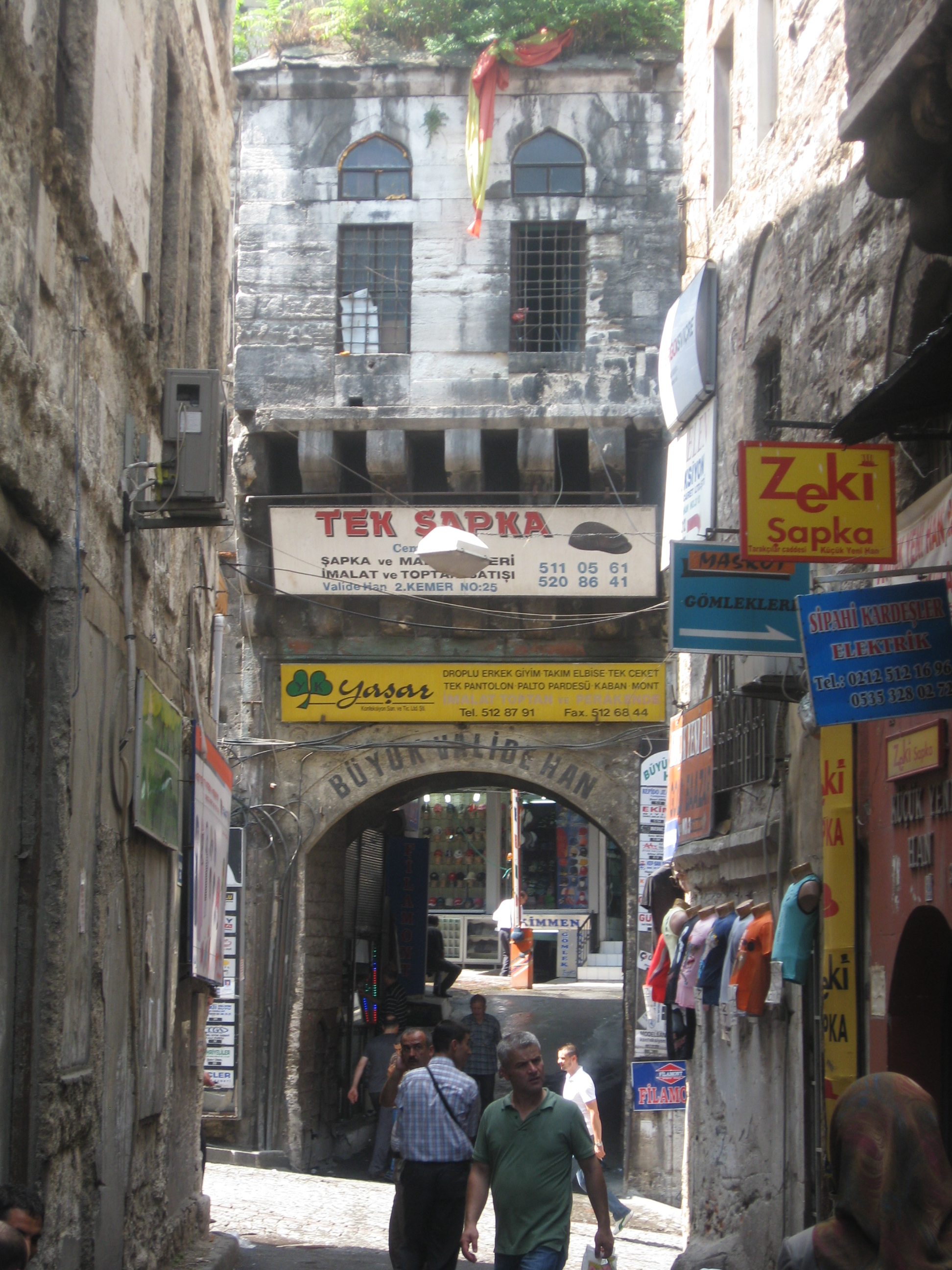 Büyük Valide Han in Istanbul.